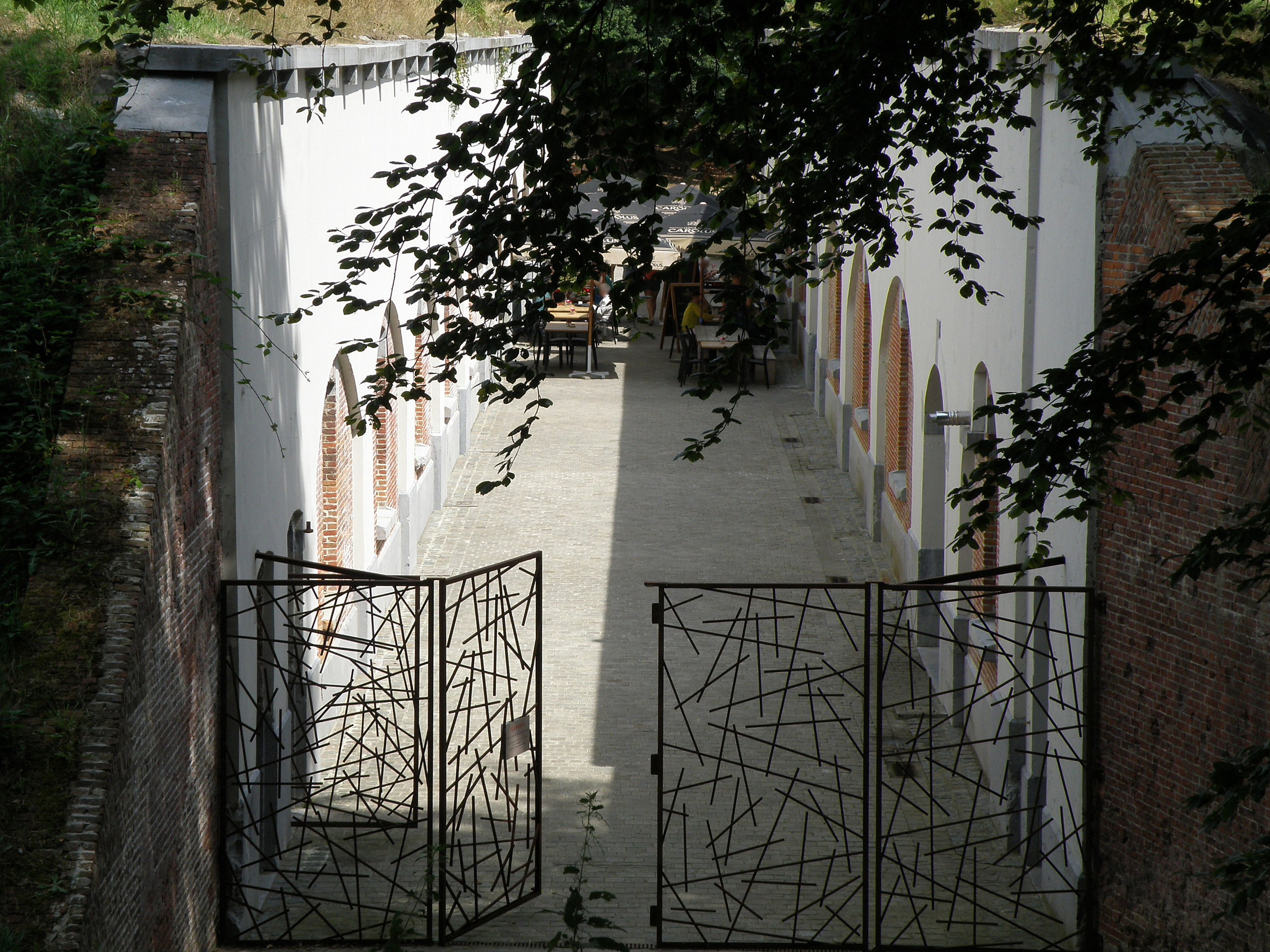 Duffel (prov. Antwerpen, België). Fort.